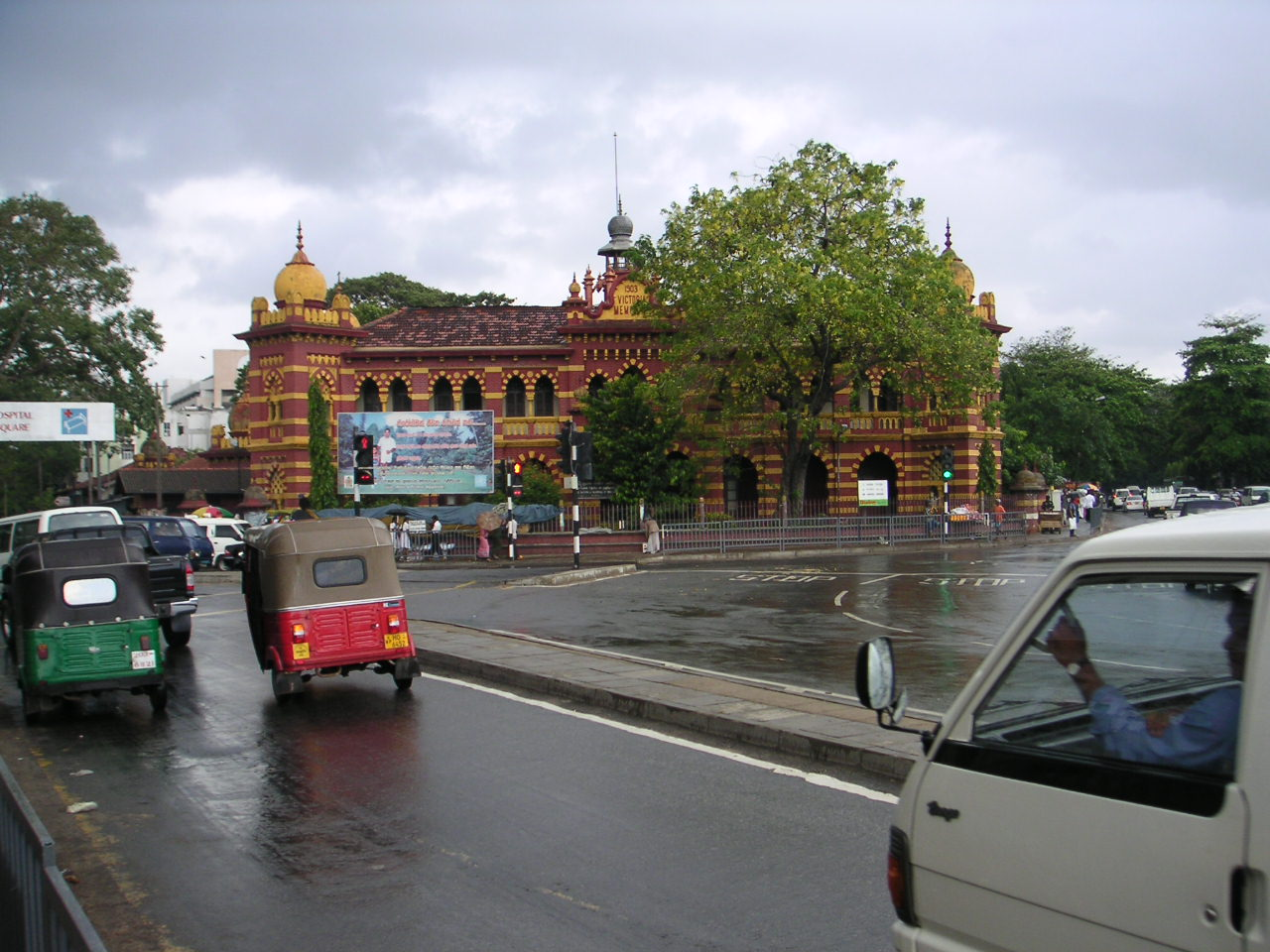 Colombo. Photo: Soman